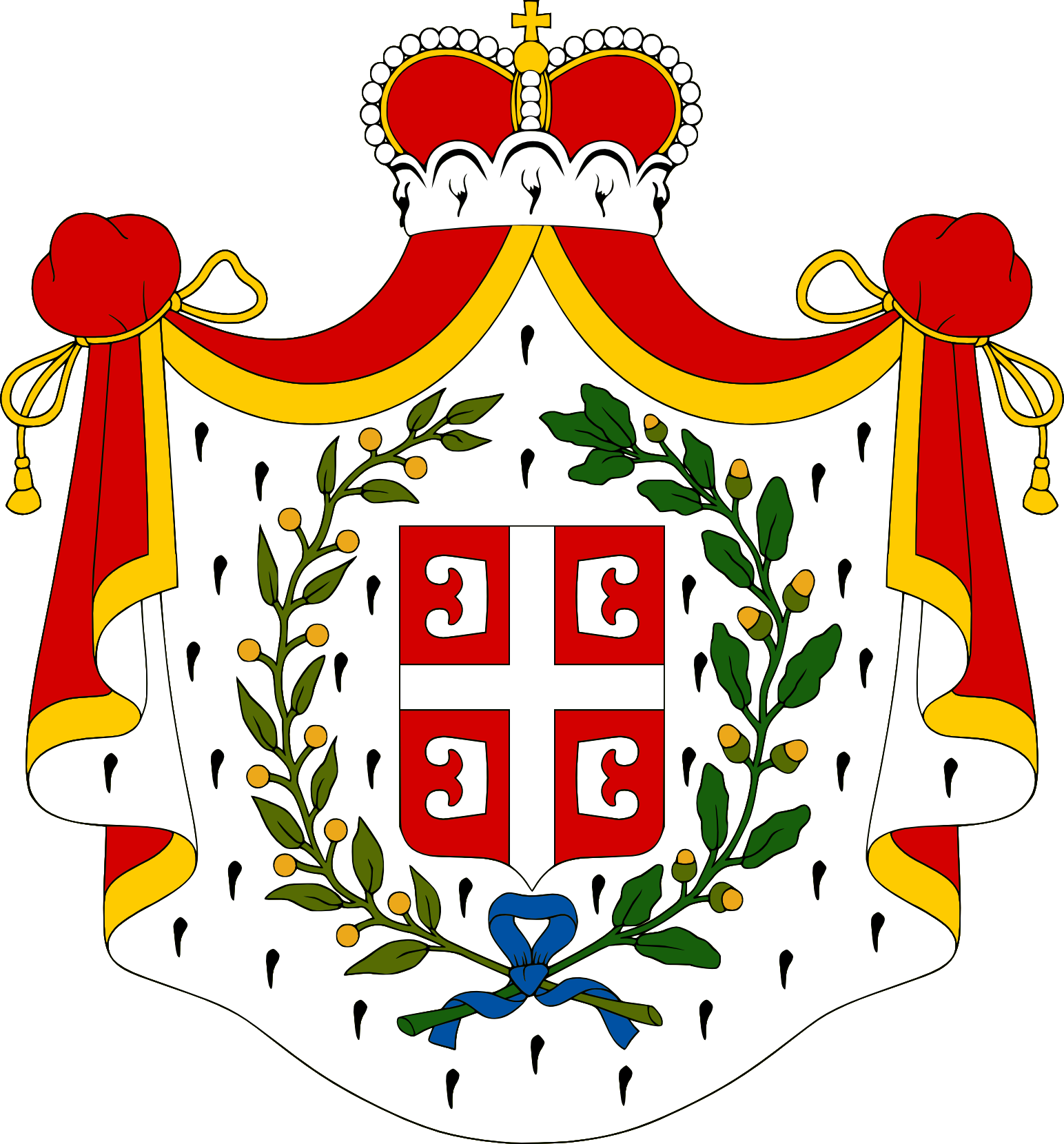 Coat of Arms of the Principality of Serbia. Prince Miloš Obrenović I used this Coat of Arms as his personal one during his first reign.